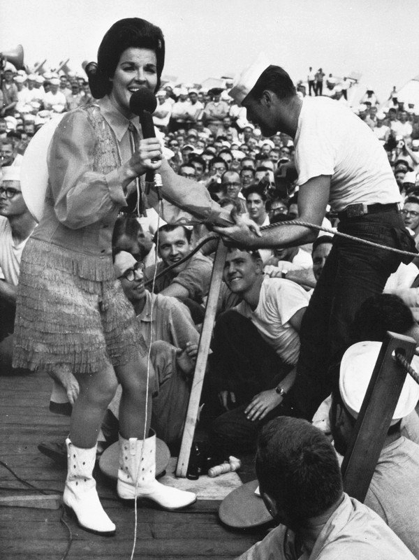 Singer Anita Bryant with a sailor during the Bob Hope show on the flight deck of the U.S. Navy aircraft carrier USS Ticonderoga (CVA-14) on 26 December 1965. Bob Hope and other entertainers were on a Christmas Tour of U.S. Military installations throughout Vietnam.